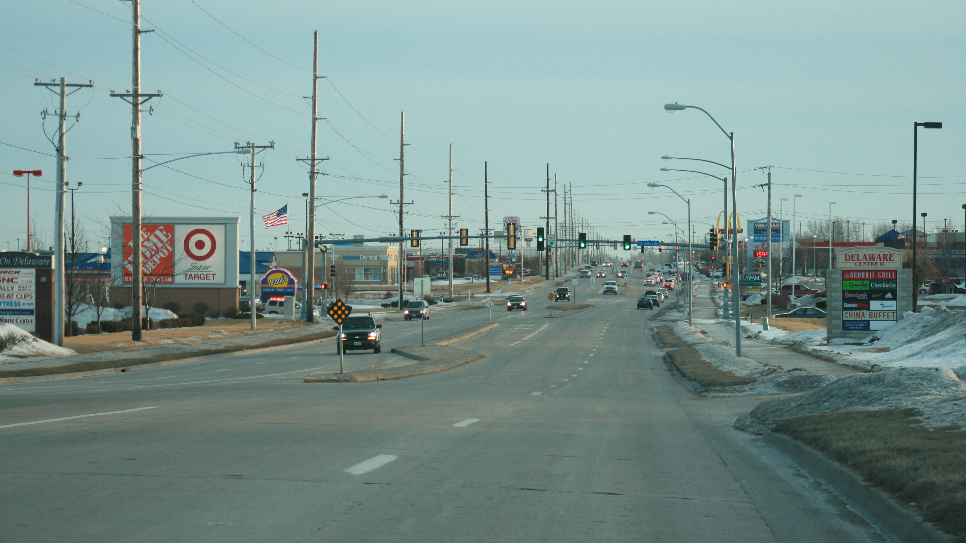 Delaware Avenue in Ankeny heading south, as seen just after crossing Shurfine Drive